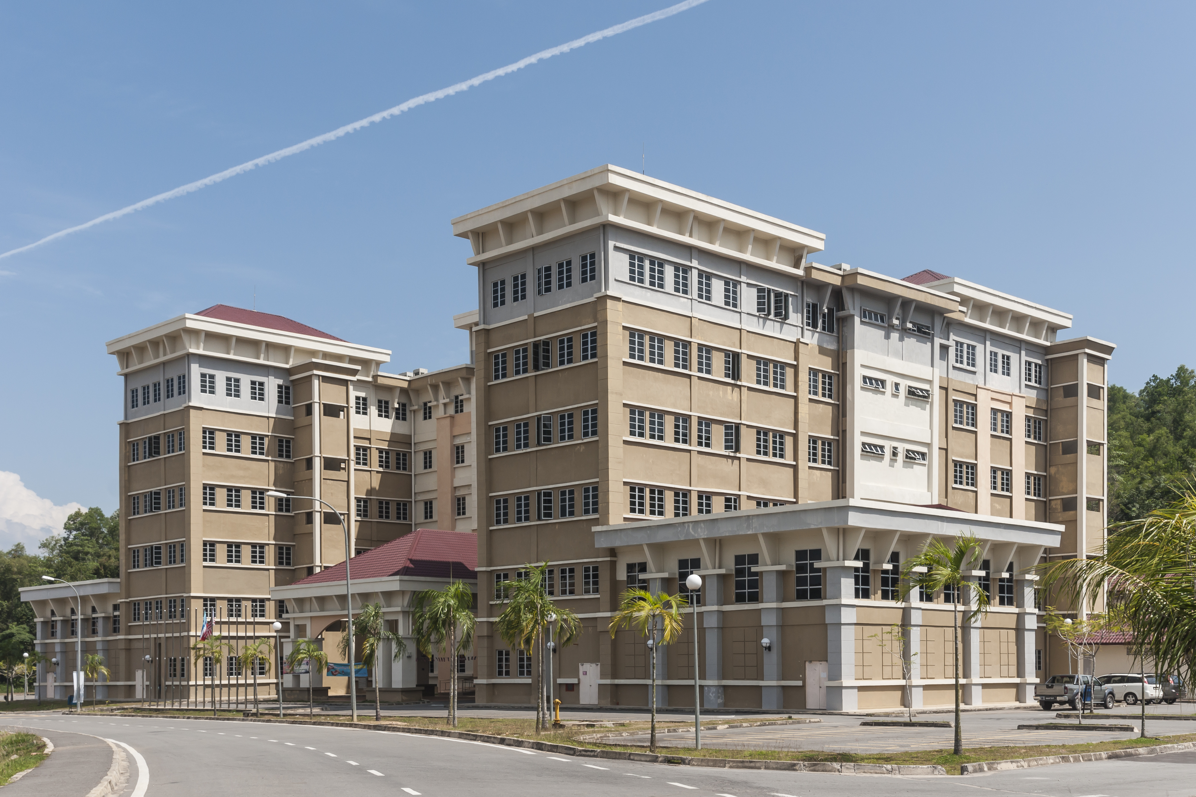 Universiti Teknologi Mara, Campus Sabah, Kota Kinabalu; New Academic Building